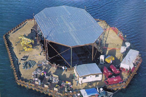 This is an image of the cofferdam built for the excavation of the ship La Belle in Matagorda Bay, Texas.